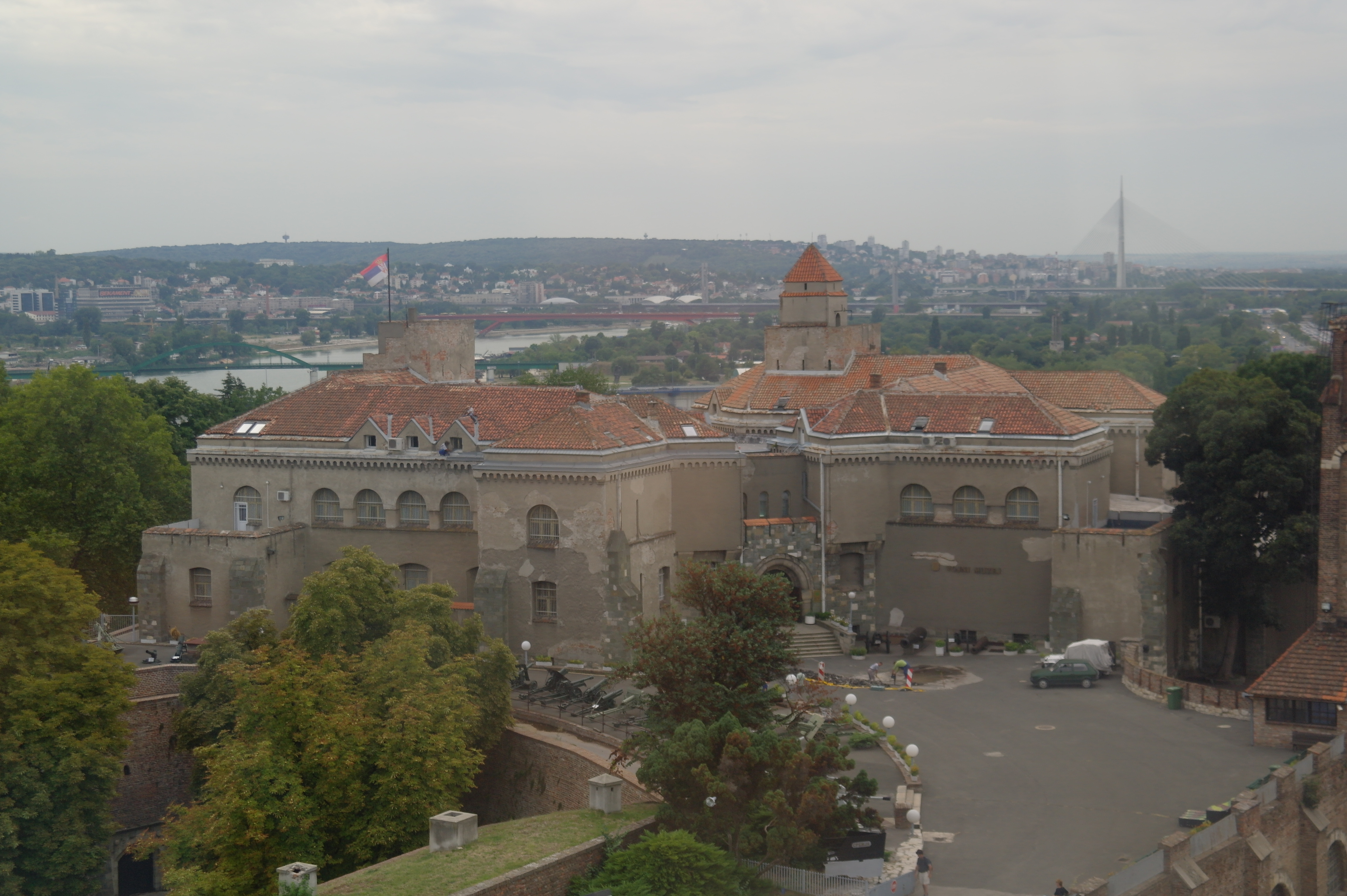 Belgrade Military Museum building from Belgrade Fortress Clock tower